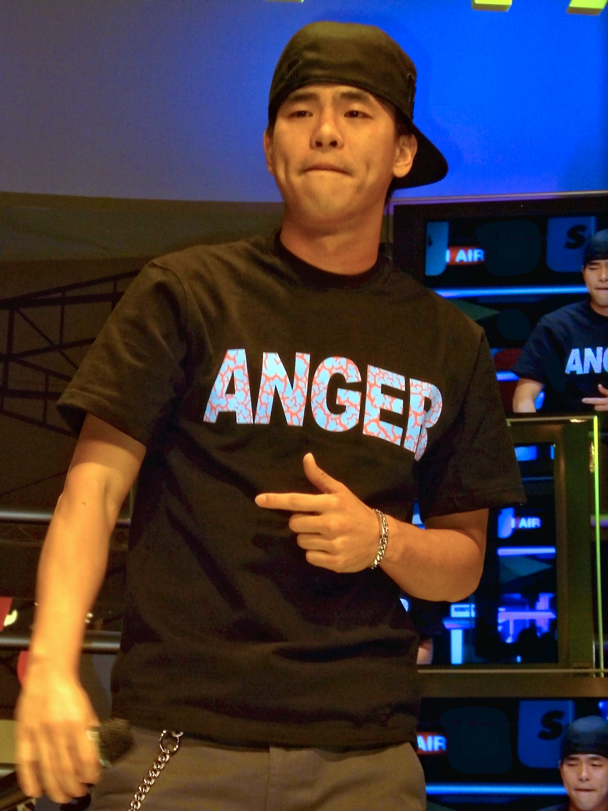 Sony Fair 2008: Alan Y. Ke.Bân-lâm-gú: 2008-nî Sony Tián-sī-huē: Kua Iú-lûn. 2008年新力展示會：柯有綸。